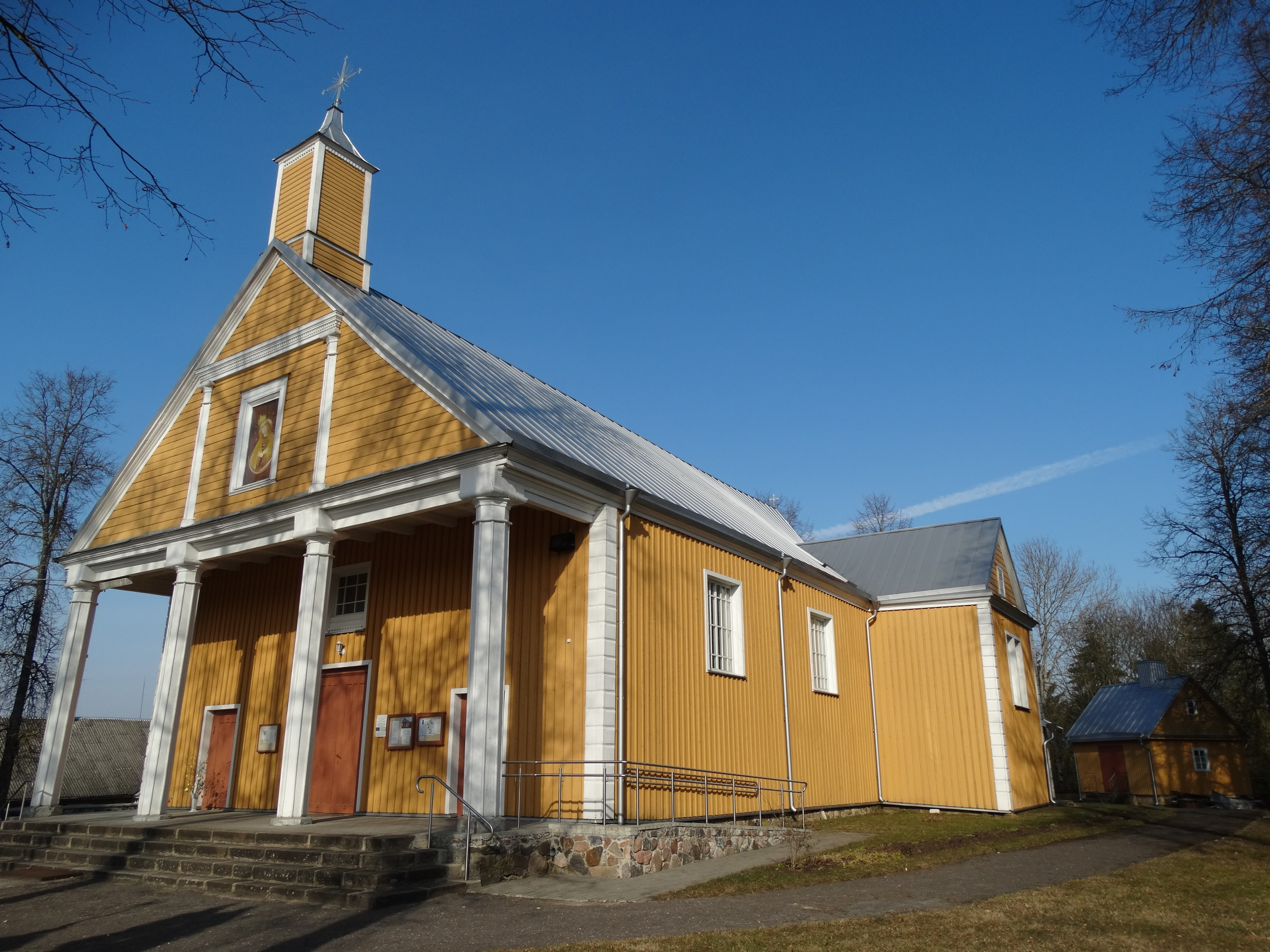 Church of the Assumption of The Holy Virgin Mary, Raguva, Panevėžys district, Lithuania